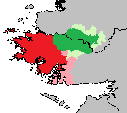 Difference between Joyce Country and Connemara. [Caution: District boundaries are uploader's opinion. Authoritative verification necessary.]